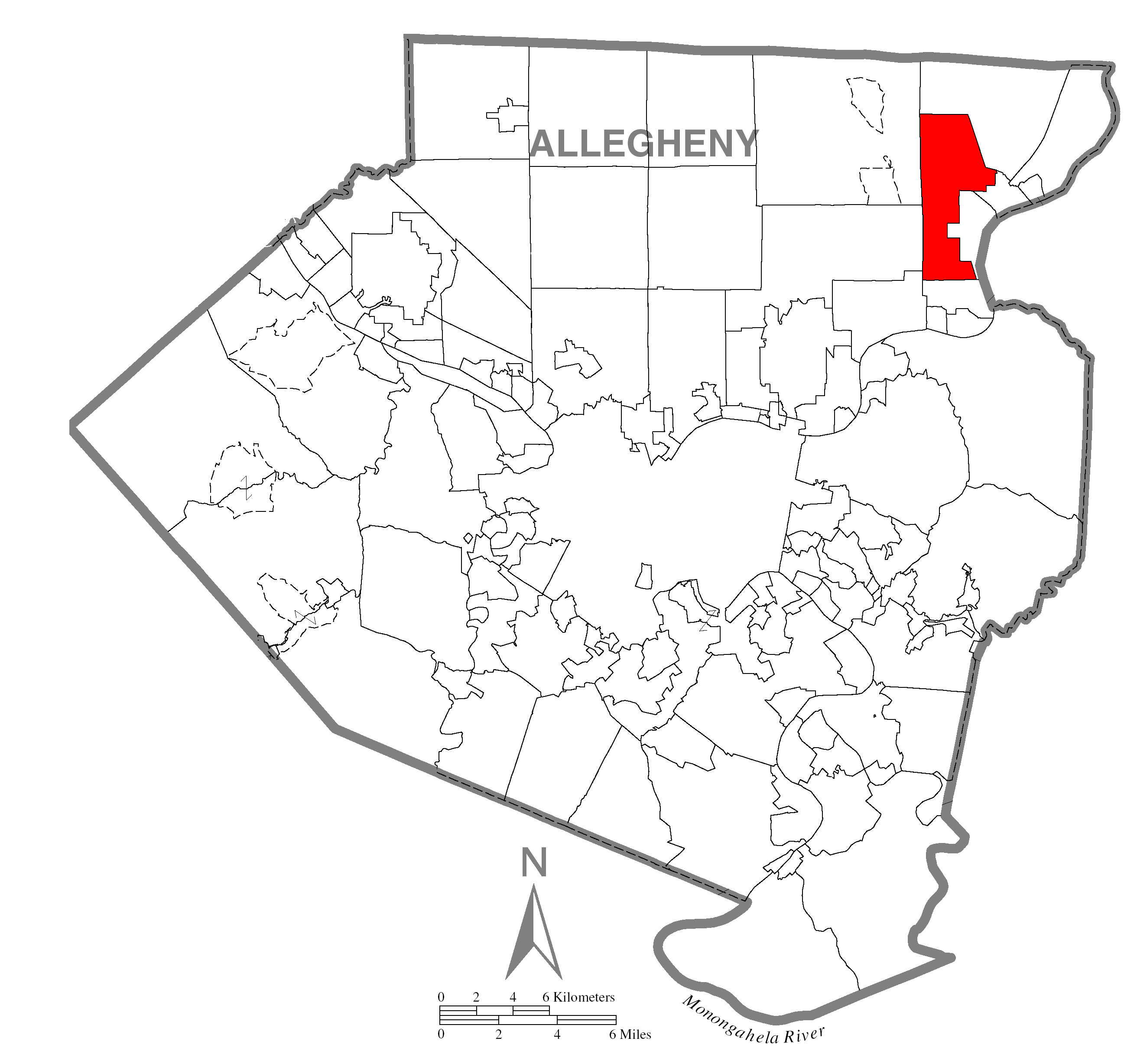 A map of Allegheny County showing Frazer Township, Pennsylvania (alternate) highlighted on the map.